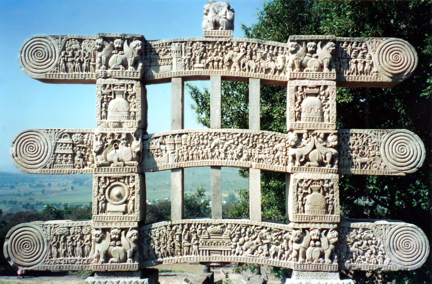 West Gate of Stupa #1, Sanchi This is the back of the West Gate, viewed from the elevated circumambulatory platform as one looks outward from the stupa. From top to bottom: the transport of Buddha's relics to Kusinagara, the war over the relics, and the temptation of Buddha by Mara.